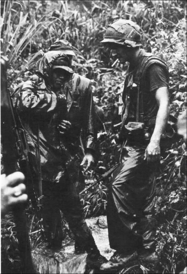 Two riflemen of Company M, 3d Battalion, 3d Marines pause for a rest and cigarette during a heavy thunderstorm while on patrol just below Mutter's Ridge.